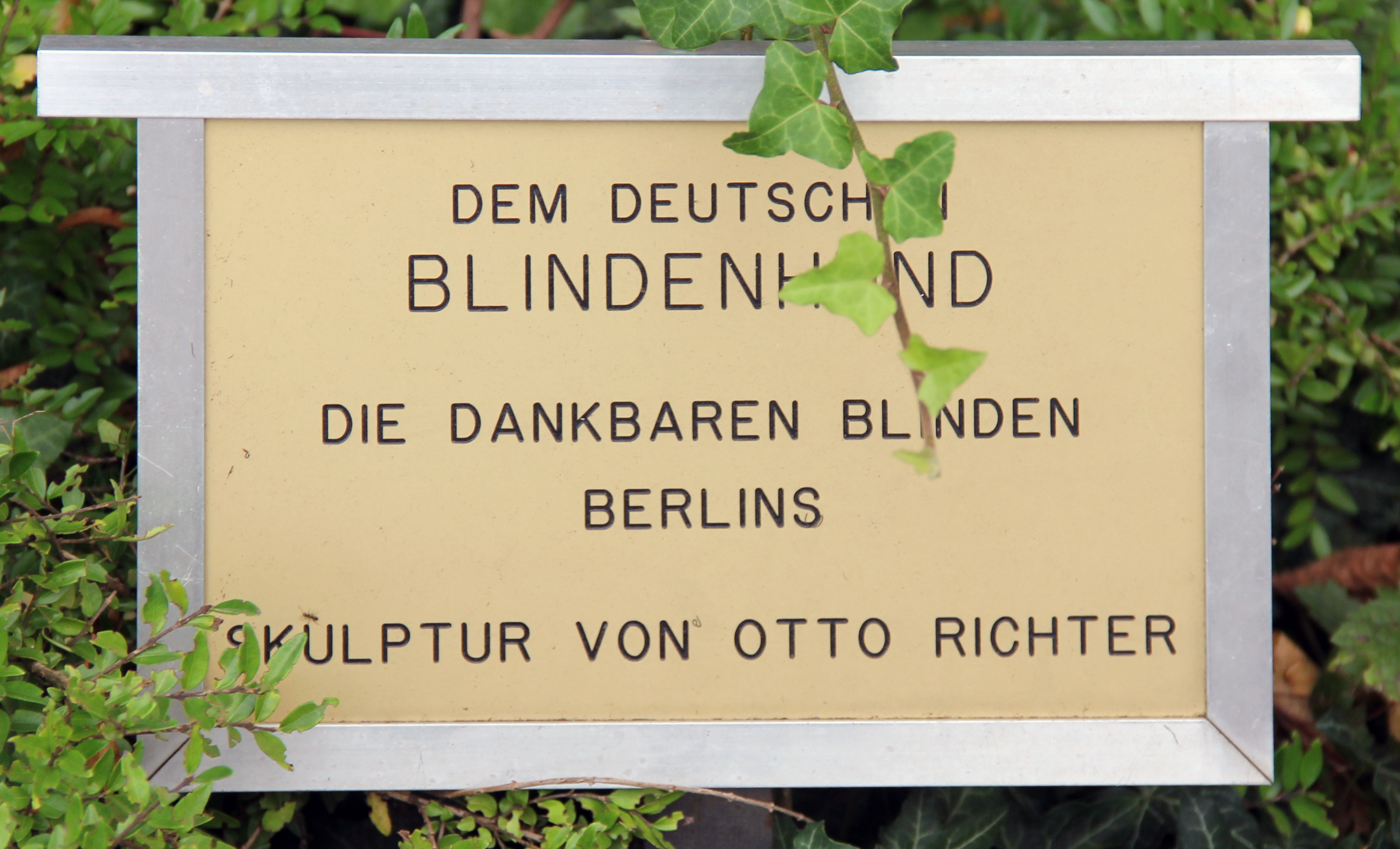 Memorial plaque, "Blindenhund" by Otto Richter, Hardenbergplatz 8, Berlin-Tiergarten, Deutschland